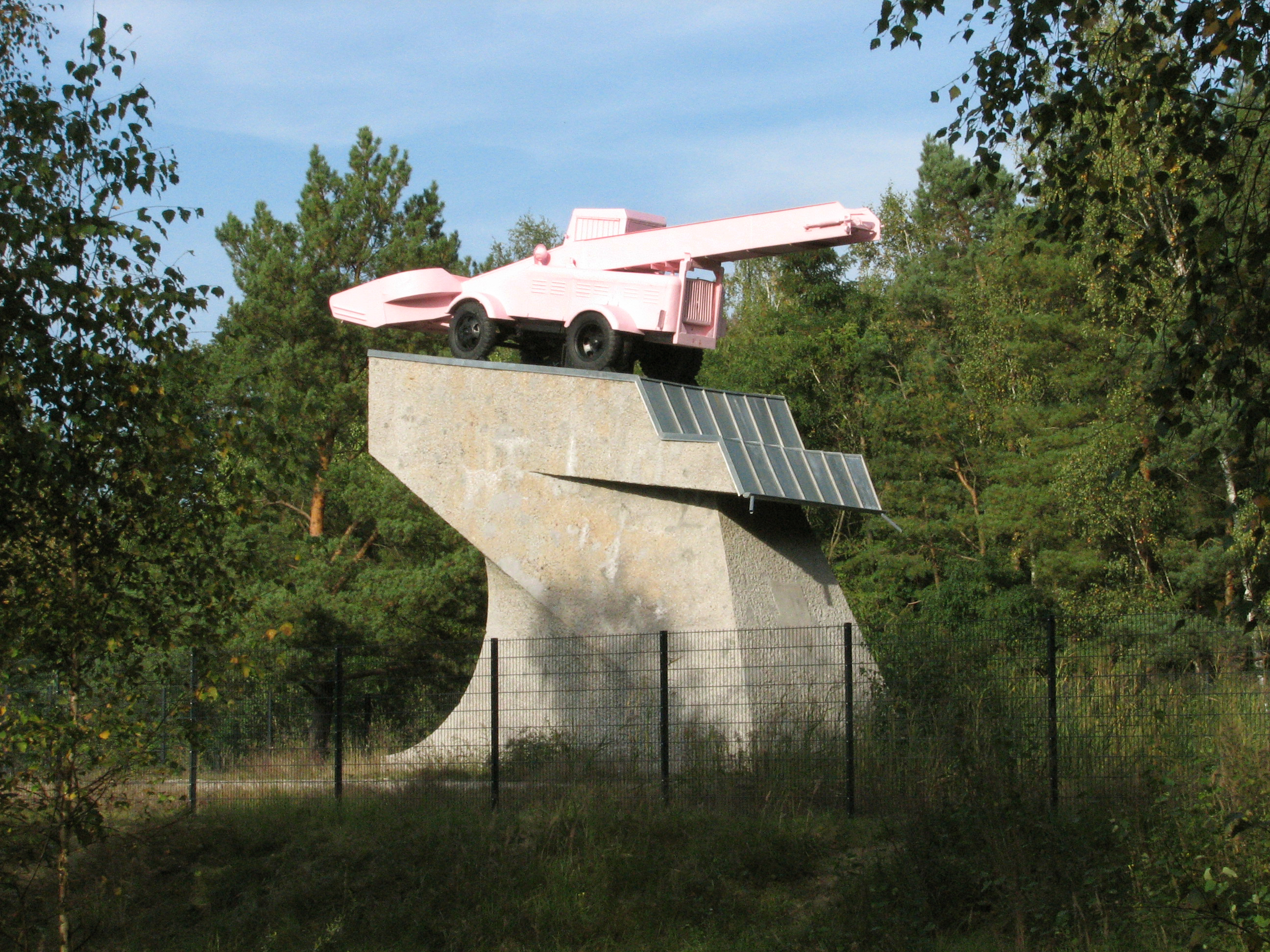 A pink snow blower has replaced the T-34 tank on top of the basement of the former Soviet WWII memorial in Kleinmachnow.